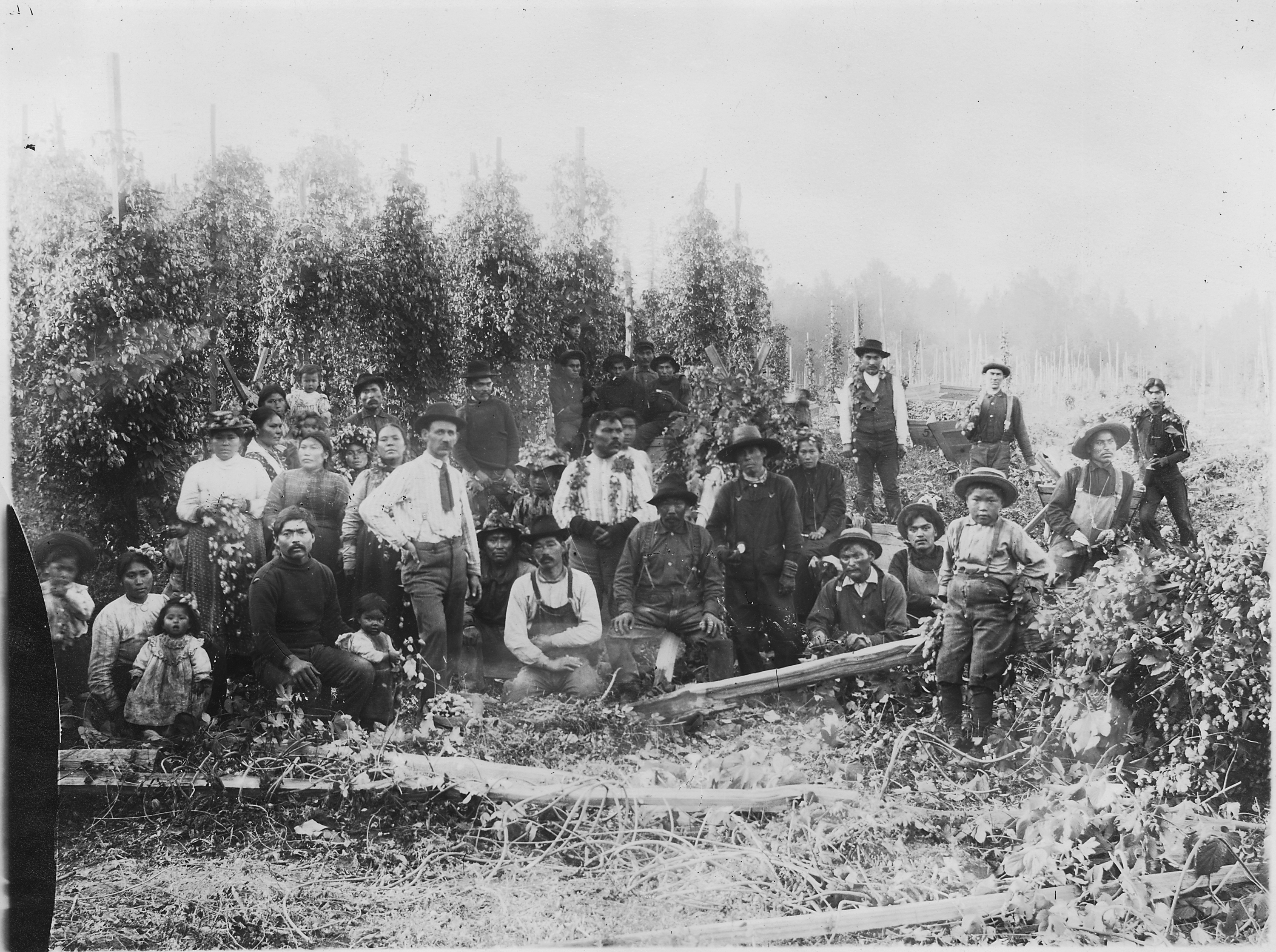 Scope and content: Walter Calvert, second from right. Kenneth Benson, to the right of baby held upward. Abraham Nelson, next native to the right.